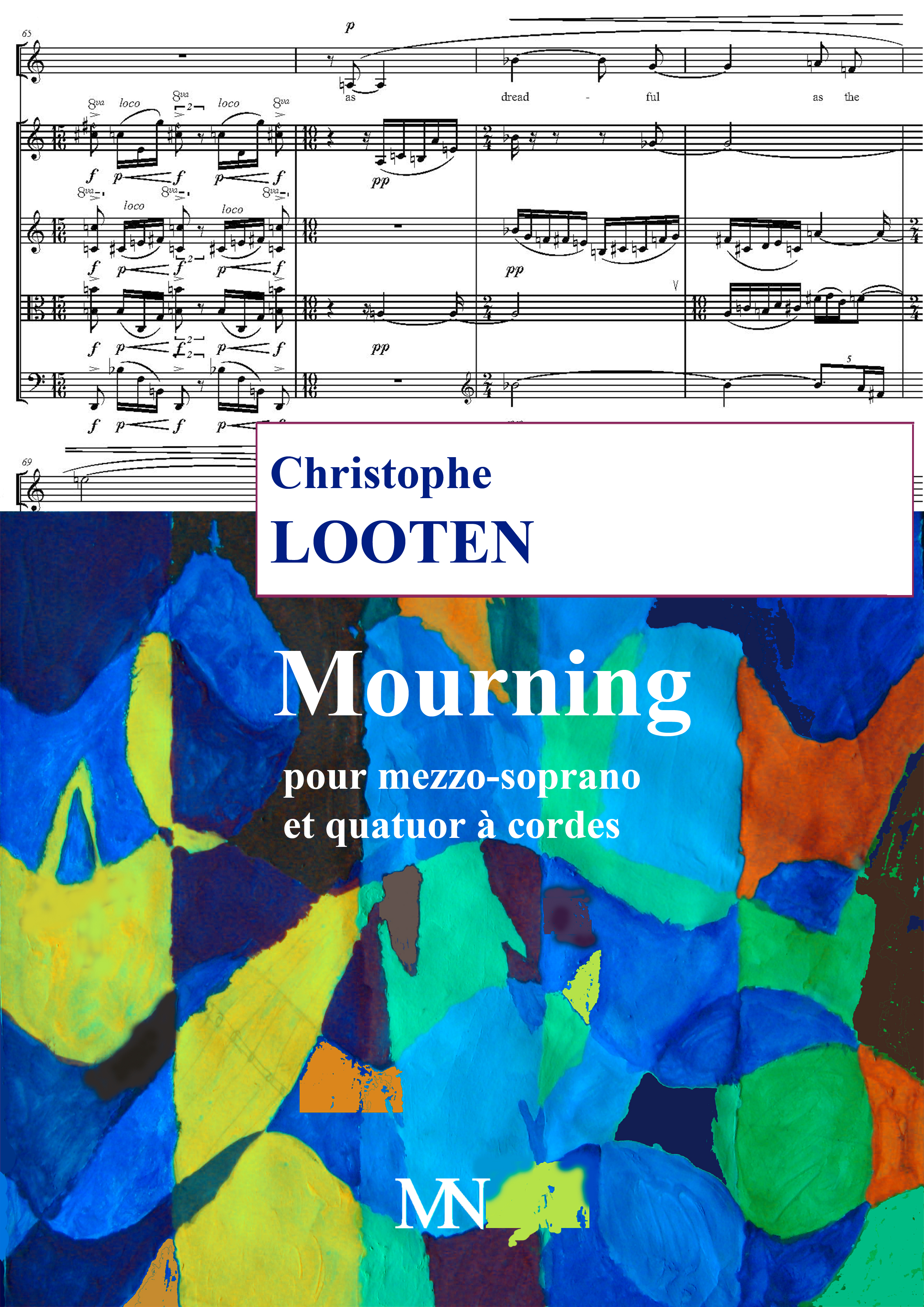 Cover page of the score